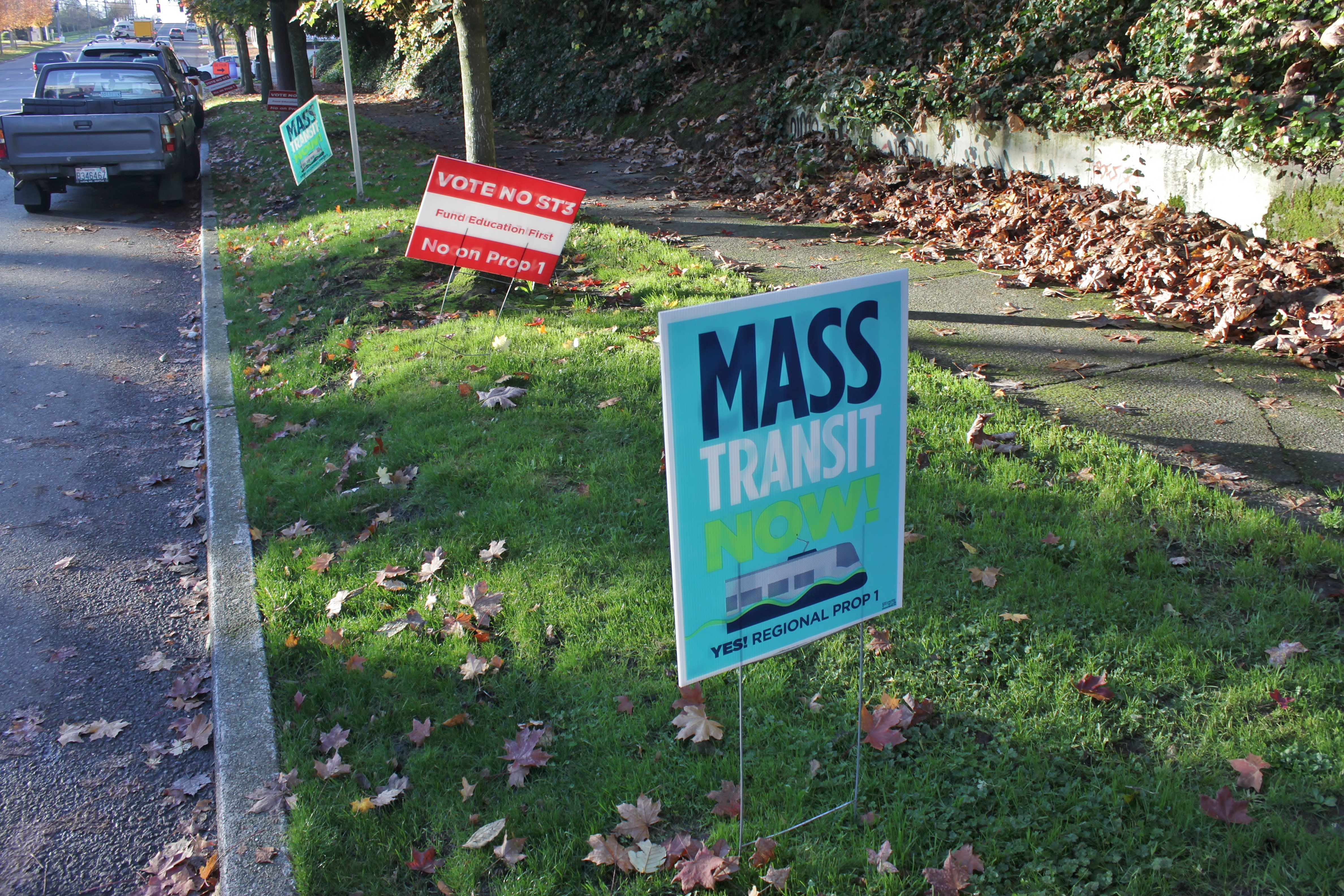 Campaign signs for the "yes" and "no" sides of the Sound Transit 3 ballot measure in Seattle, Washington during the November 2016 elections.